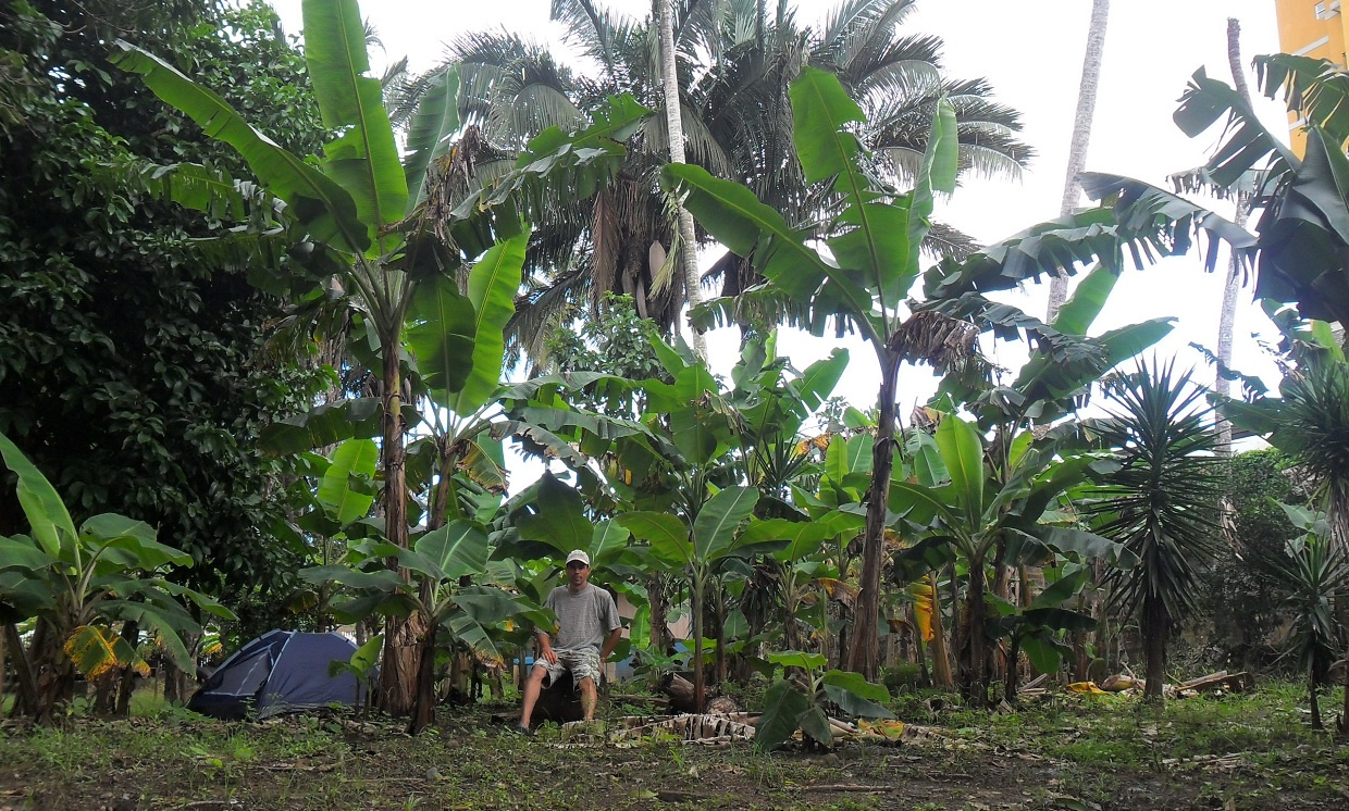 Backcountry camping, Costa Rica, Central America